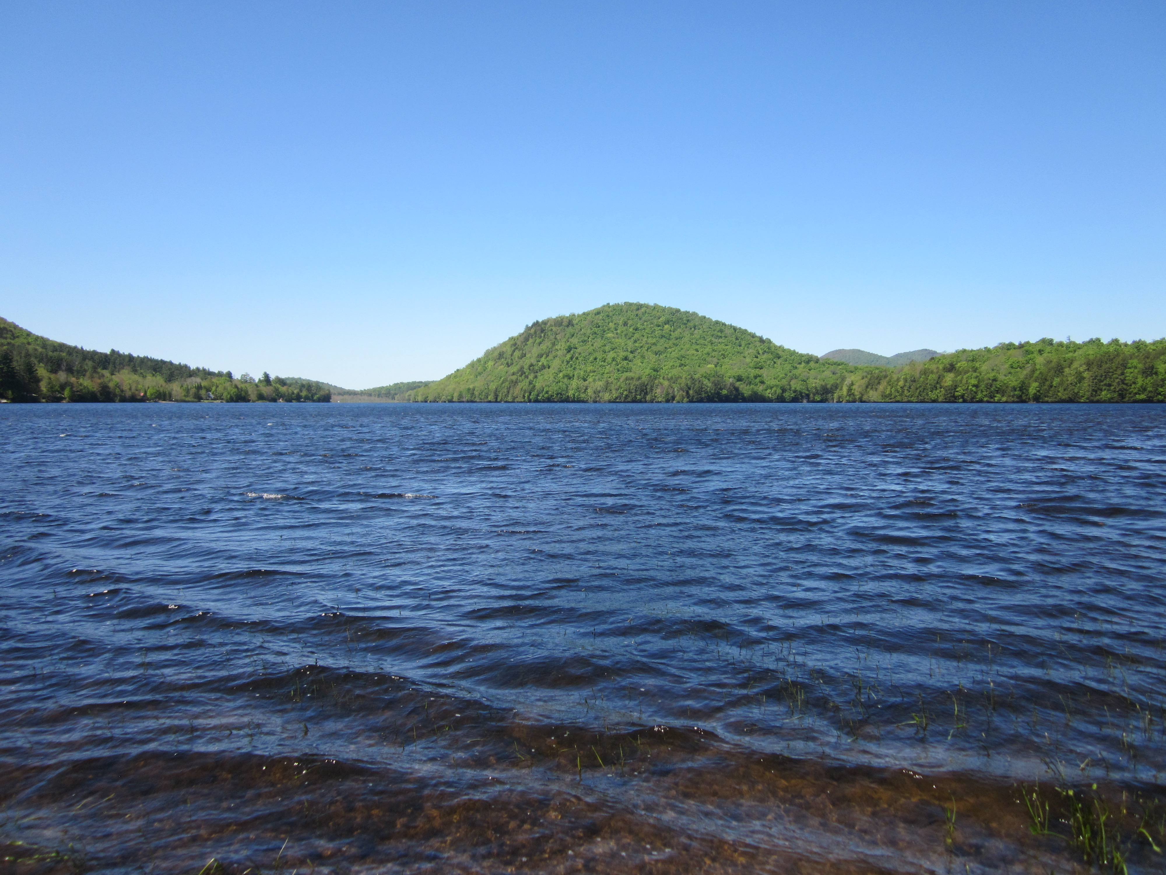 Northeast end of Oxbow Lake looking southwest. Oxbow Mountain is in the center background.